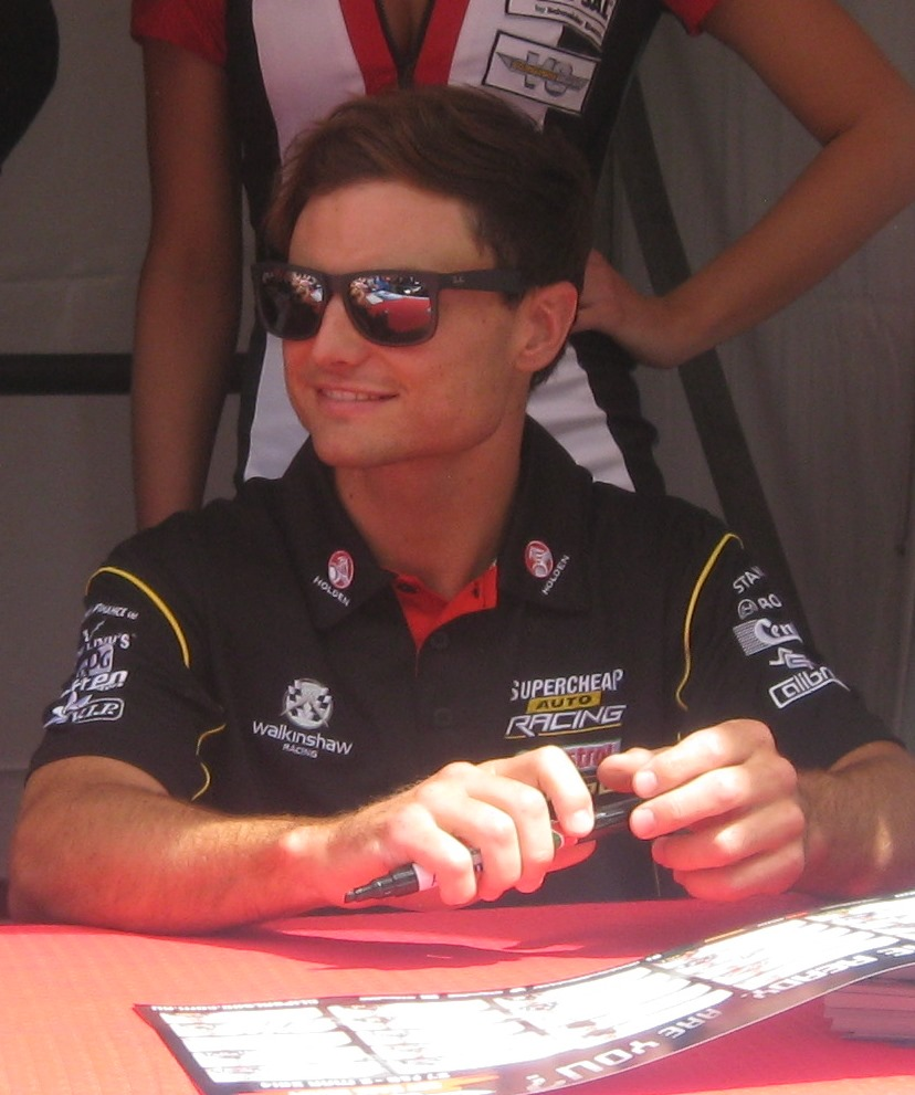 V8 Supercar driver Tim Slade in 2014